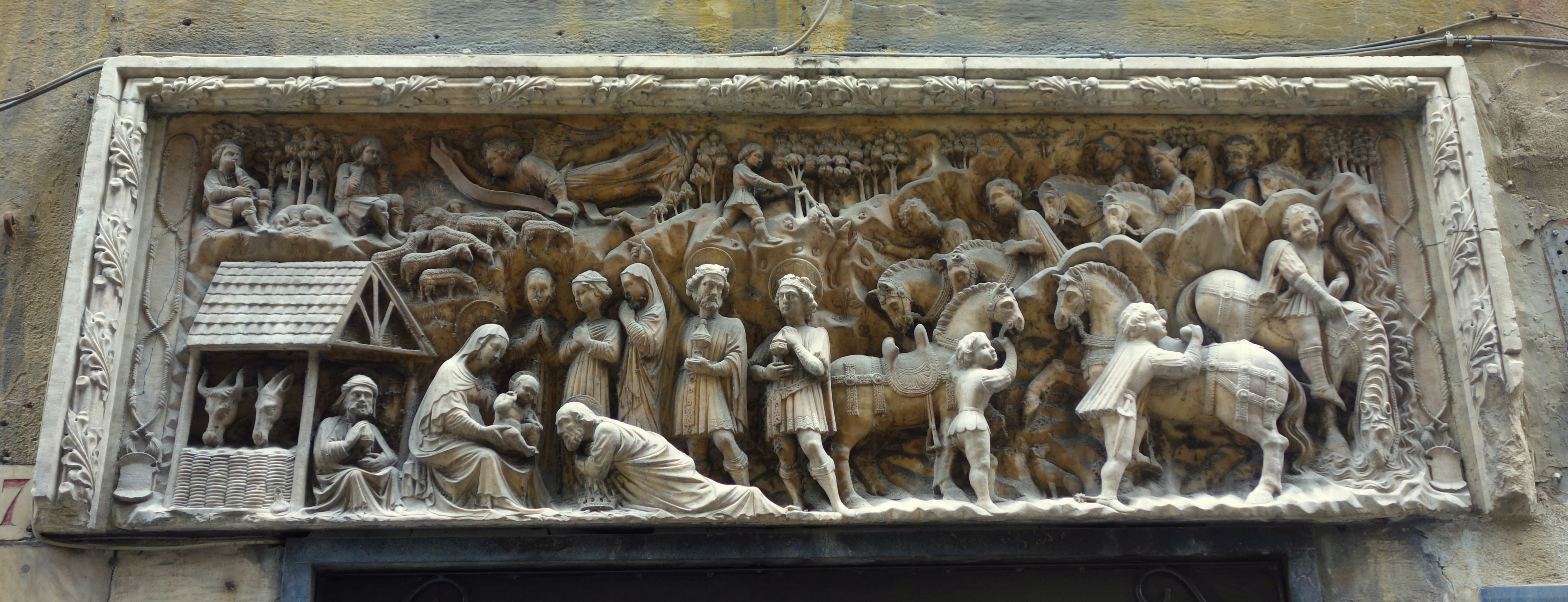 The Adoration of the Magi, attributed to Giovanni Gagini, 1460 - Genoa, Italy. A relief over a doorway.